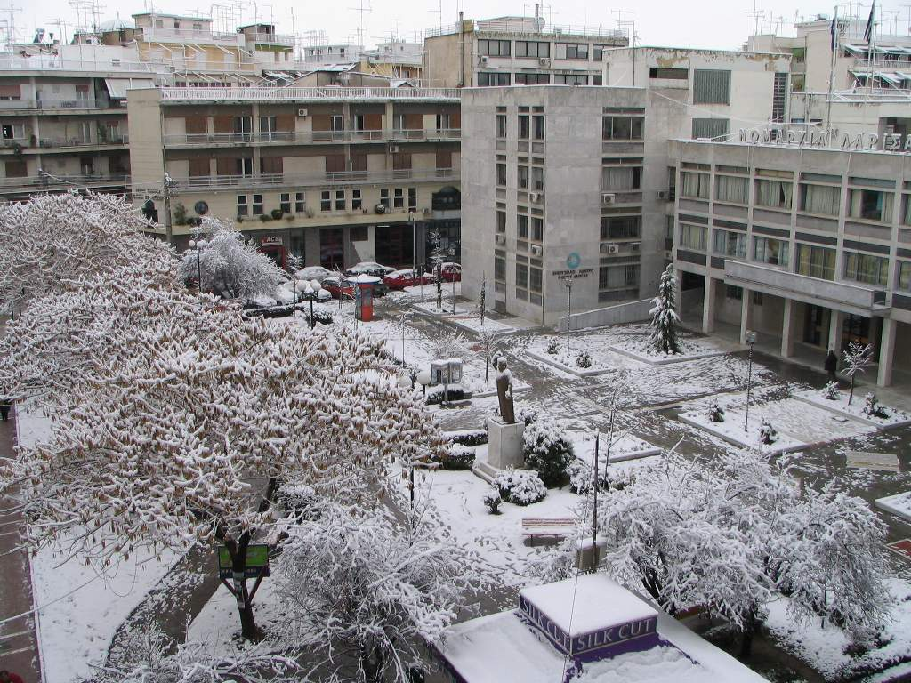 LARISA. Snow in RIGA FEREOY square